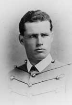 Second Lieutenant Sevier McClellan Rains, Company L, First Cavalry